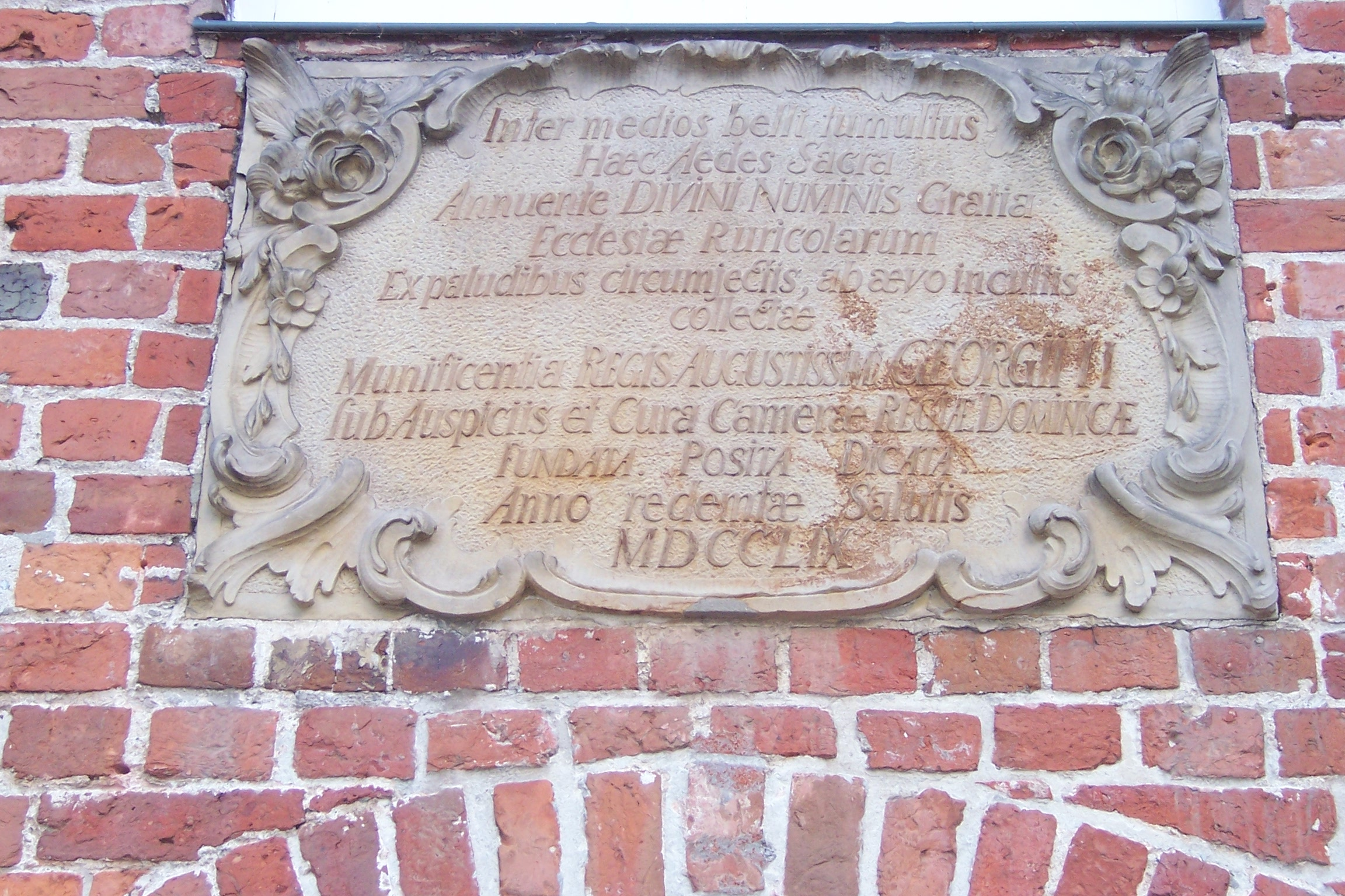 dedication inscription from 1759 on north outer wall of the Zionskirche, Worpswede